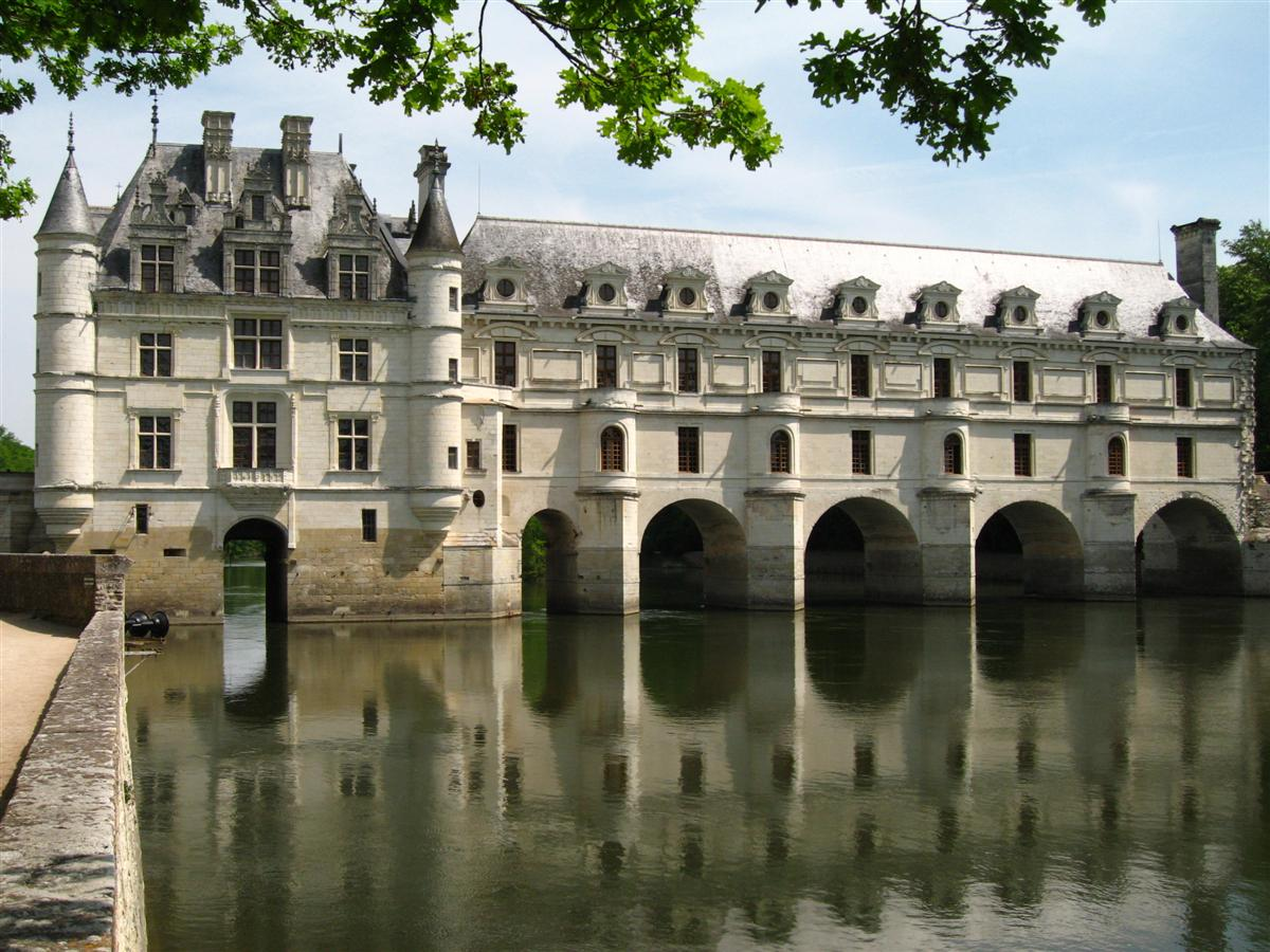 Château de Chenonceau - view of the arches and west facade of the Pont de Diane over the Cher River